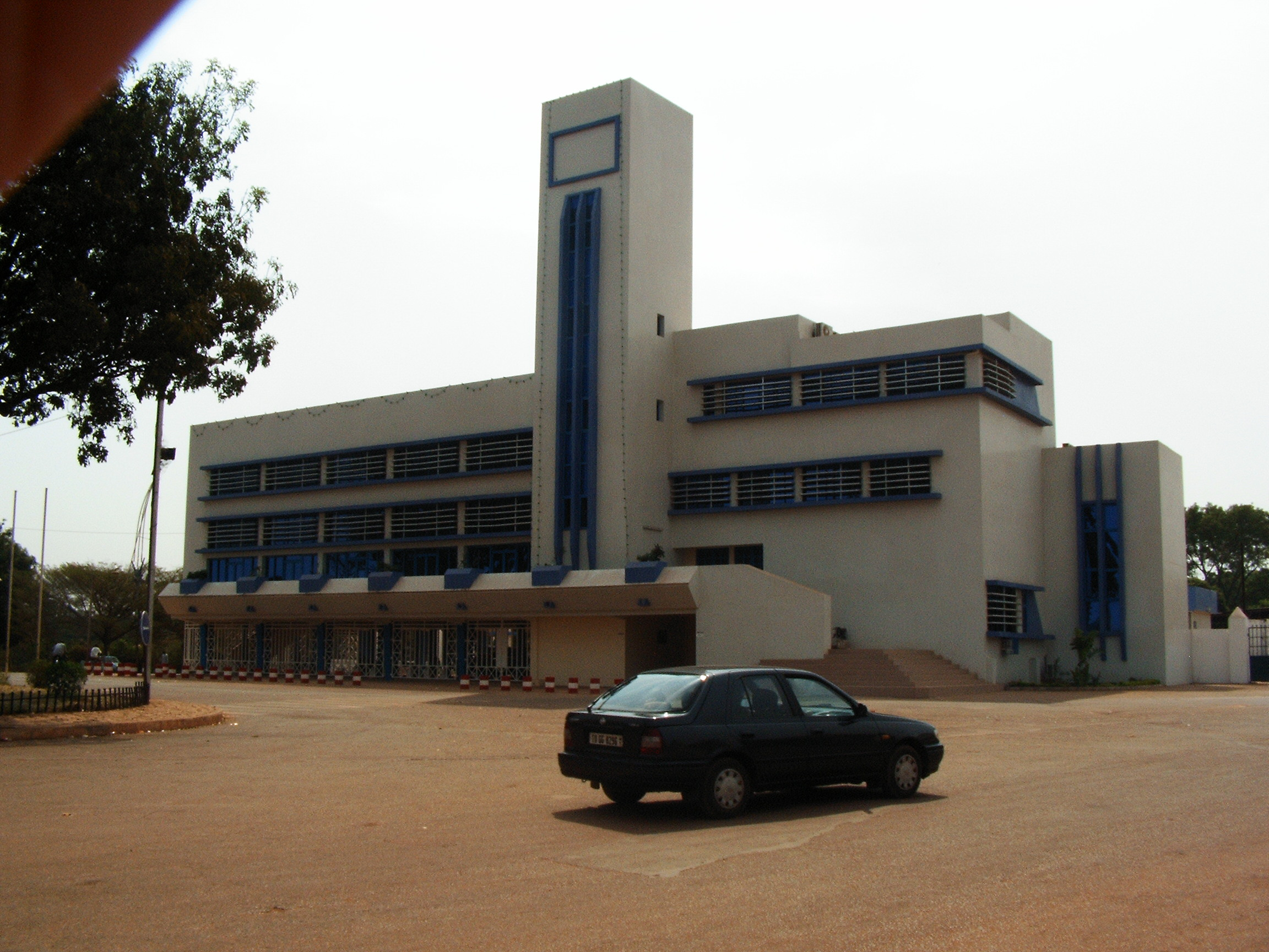 Town Hall in Bobo-Dioulasso, Burkina Faso picture taken by author